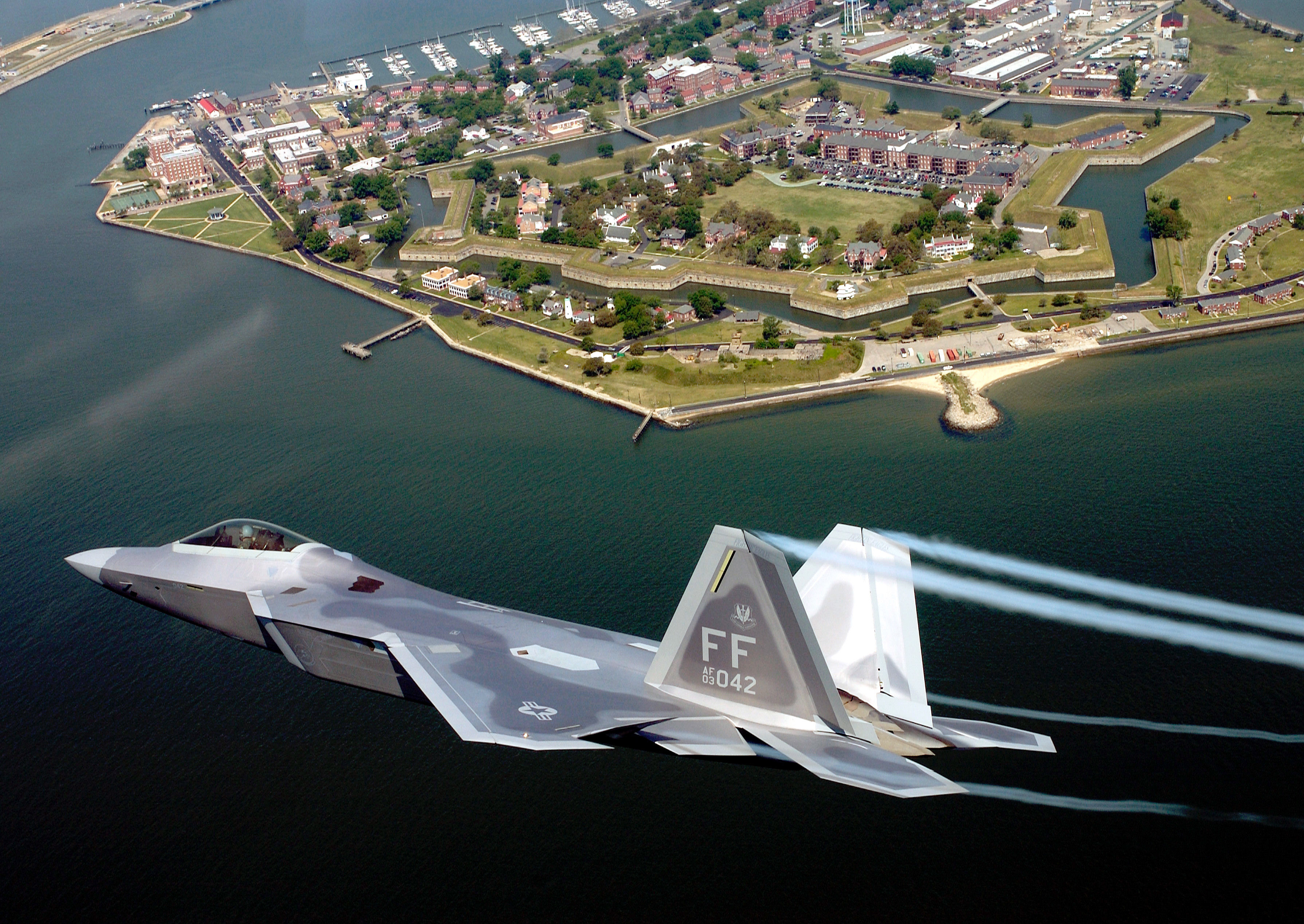 OVER VIRGINIA -- Lt. Col. James Hecker flies over Fort Monroe before delivering the first operational F-22A Raptor to its permanent home at Langley Air Force Base, Va., on May 12. This is the first of 26 Raptors to be delivered to the 27th Fighter Squadron. The Raptor program is managed by the F-22A System Program Office at Wright-Patterson AFB, Ohio. Colonel Hecker is the squadron's commander. White trails are visible as atmospheric water condenses in the trailing vortices formed behind the vertical tails. Here the vertical tails both generate inward (nearly opposite) force, and are used to increase drag.